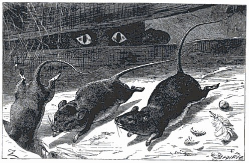 Illustration of nursery rhyme by J. B. Zwecker, from J. W. Elliott, Nursery Rhymes And Nursery Songs, 1870.